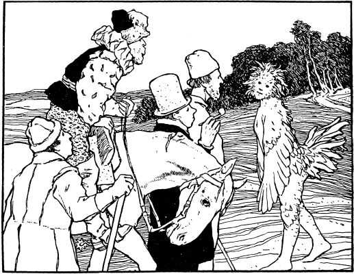 Illustration by Otto Ubbelohde to the fairy tale Fitcher's Bird